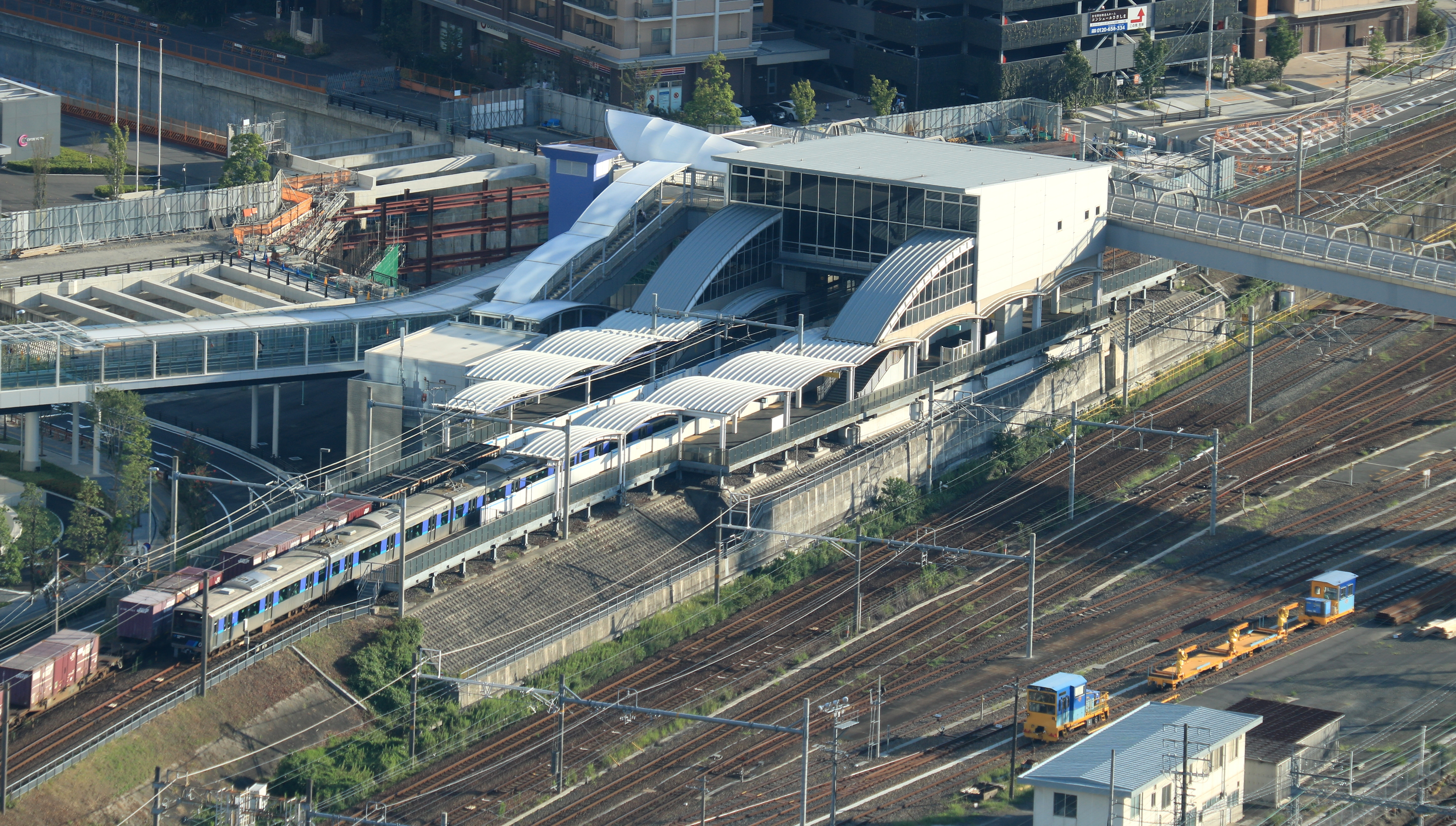 Sasashima-raibu Station seen from Midland Square in Nakamura-ku, Nagoya, Aichi Prefecture, Japan.